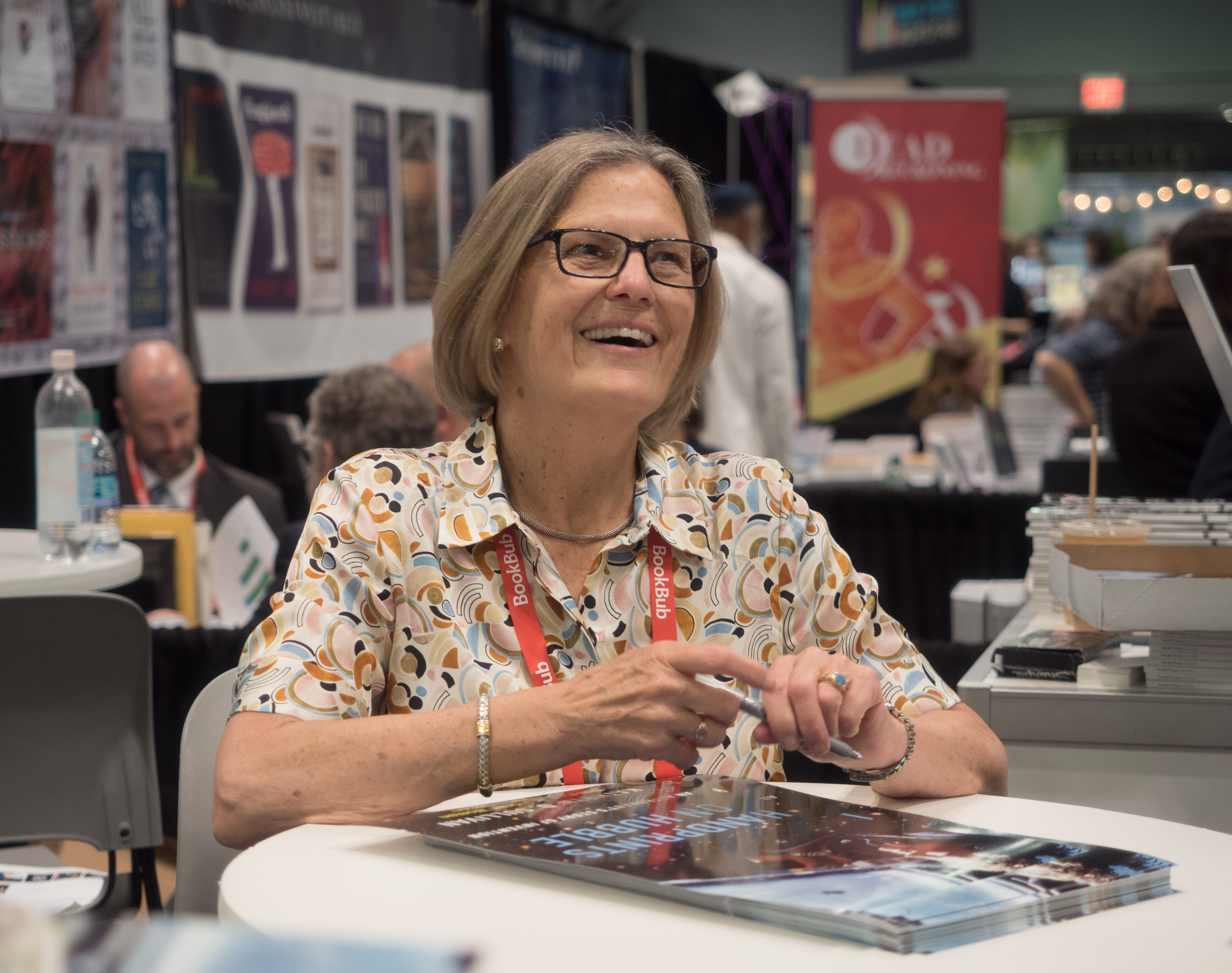 Kathryn D. Sullivan at BookExpo at the Javits Center in New York City, May 2019.